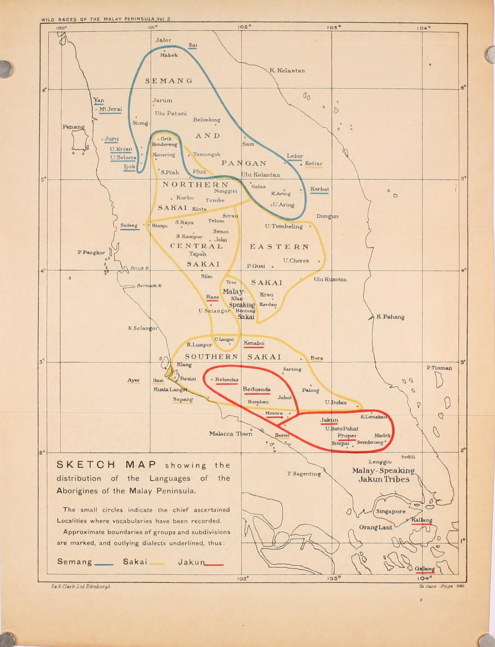 Title Pagan races of the Malay Peninsula Publication date 1906 Topics Ethnology -- Malay Peninsula, Malays (Asian people), Malay Peninsula -- Social life and customs, Malay Peninsula -- Religion, Malay Peninsula -- Aboriginal dialects Publisher London : Macmillan and Co., limited; [etc., etc.] Collection cdl; americana Digitizing sponsor MSN Contributor University of California Libraries Language English Volume 2 View Book Page: Book Viewer About This Book: Catalog Entry View All Images: Click here to view book online to see this illustration in context in a browseable online version of this book.